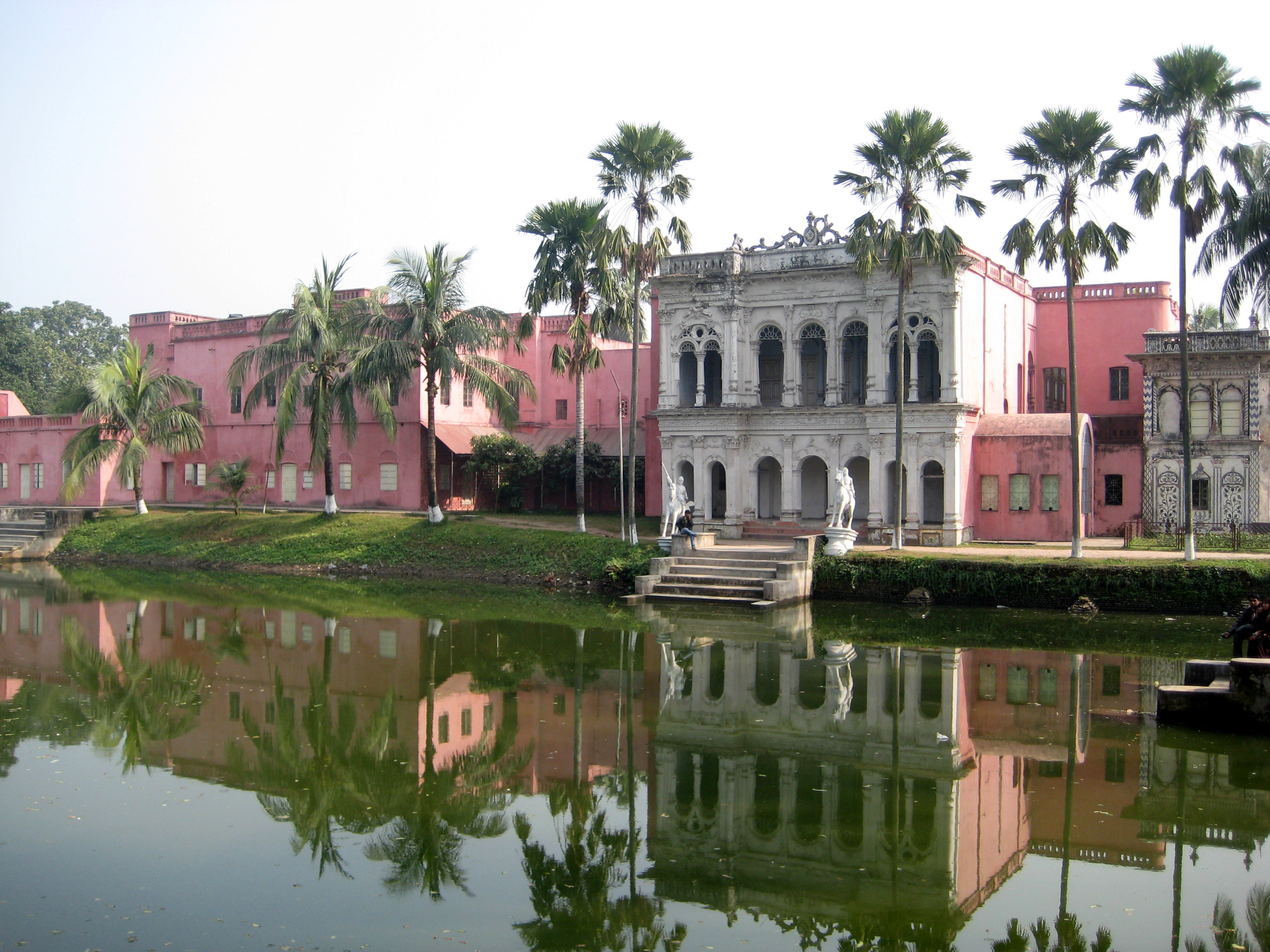 Sonargaon, One of the oldest capital of Bangla. It is located near the current-day city of Narayanganj, Bangladesh. Building: present day Folk Art Museum of Sonargaon.